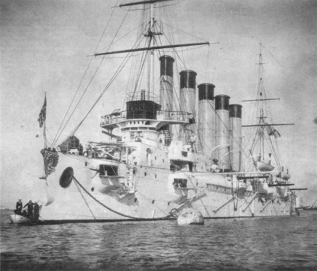 Russian protected cruiser Askold in Kronstadt in 1902